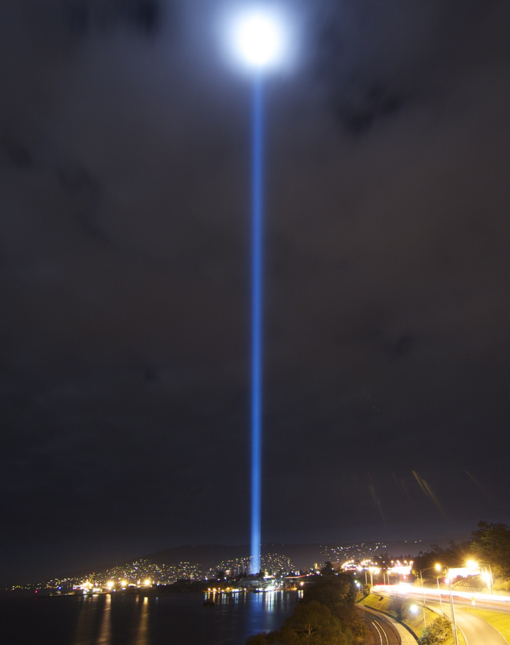 Ryoji Ikeda's Spectra light installation during the Museum of Old and New Art's Dark Mofo festival, Hobart, Tasmania, Australia. 22 June, 2013.